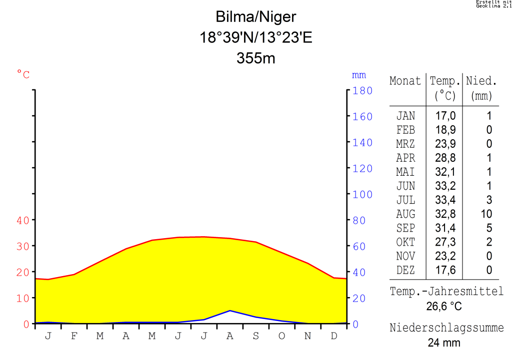 climate chart in the format by Walther and Lieth, metric, °Celsisus and millimeters, made with Geoklima 2.1 DateOctober 2006SourceSoftware: Geoklima 2.1 Website GeoklimaAuthorHedwig in WashingtonPermission (Reusing this file) Own work, attribution required (Multi-license with GFDL and Creative Commons CC-BY 2.5)